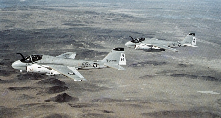 Two U.S. Navy Grumman A-6E Intruder (BuNo 159899, 161103) from Attack Squadron VA-95 Green Lizards in flight. VA-95 was assigned to Carrier Air Wing 11 (CVW-11) aboard the aircraft carrier USS America (CV-66) for a deployment to the Mediterranean Sea and the Indian Ocean from 14 April to 12 November 1981.